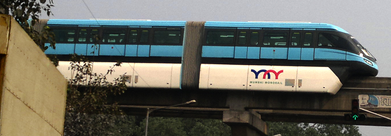 I noticed three stories coming together in this photograph. First, the monorail rake on test, formerly a rare sighting, now more common. Second, the heavy traffic at the time. Third, a flash mob of birds that appeared in the frame. The photo was done completely on auto. I then masked the birds using a chain of levels, quick-masking and layer masking. Then, I added enough contrast to make them more visible. The Monorail rake was masked too, and I added enough contrast and blue saturation to make the rake more prominent. I then masked out the traffic, to make it a little more yellow. No lens blur- this photo is way too crowded.